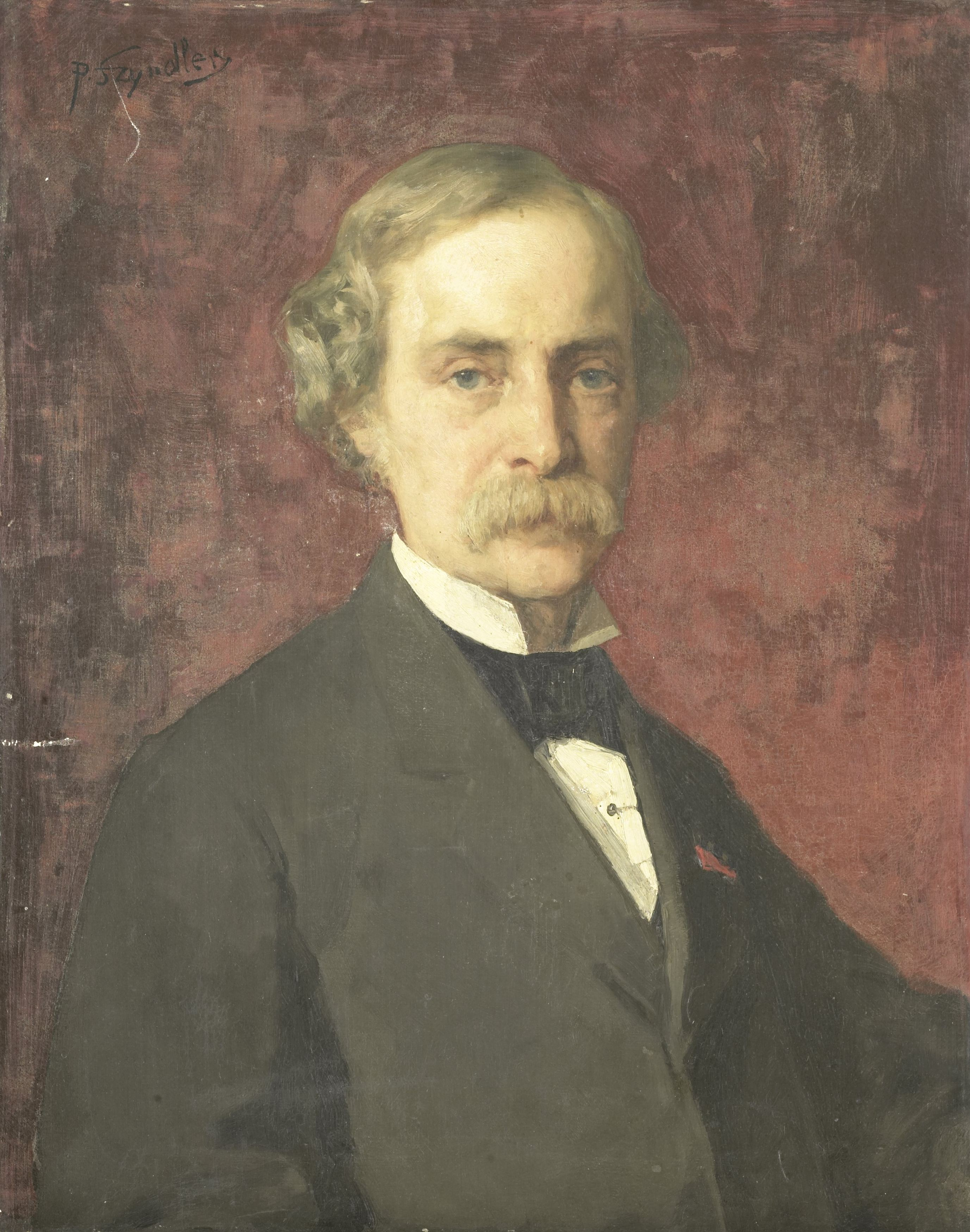 Portret van J.W. Kaiser. oil on canvasmedium QS:P186,Q296955;P186,Q4259259,P518,Q861259. Height: 69 cm (27.1 ″); Width: 55 cm (21.6 ″) dimensions QS:P2048,69U174728;P2049,55U174728. Amsterdam, Rijksmuseum Amsterdam.